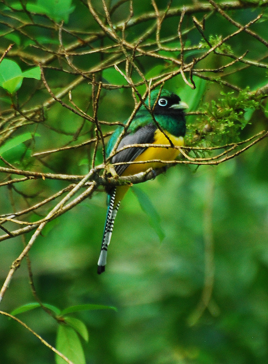 Black-throated Trogon at Selva Verde Lodge, Costa Rica, 080226. Trogon rufus.